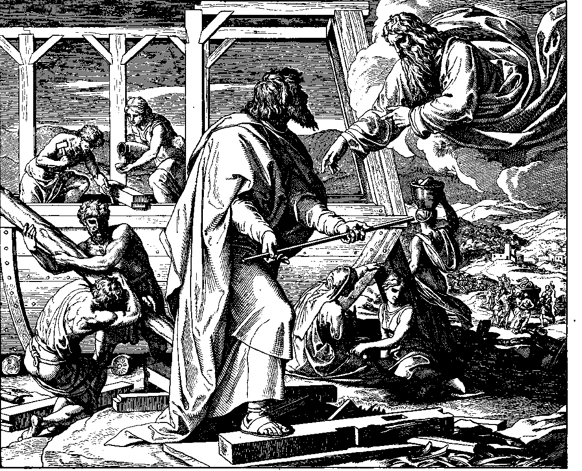 Woodcut for "Die Bibel in Bildern", 1860.